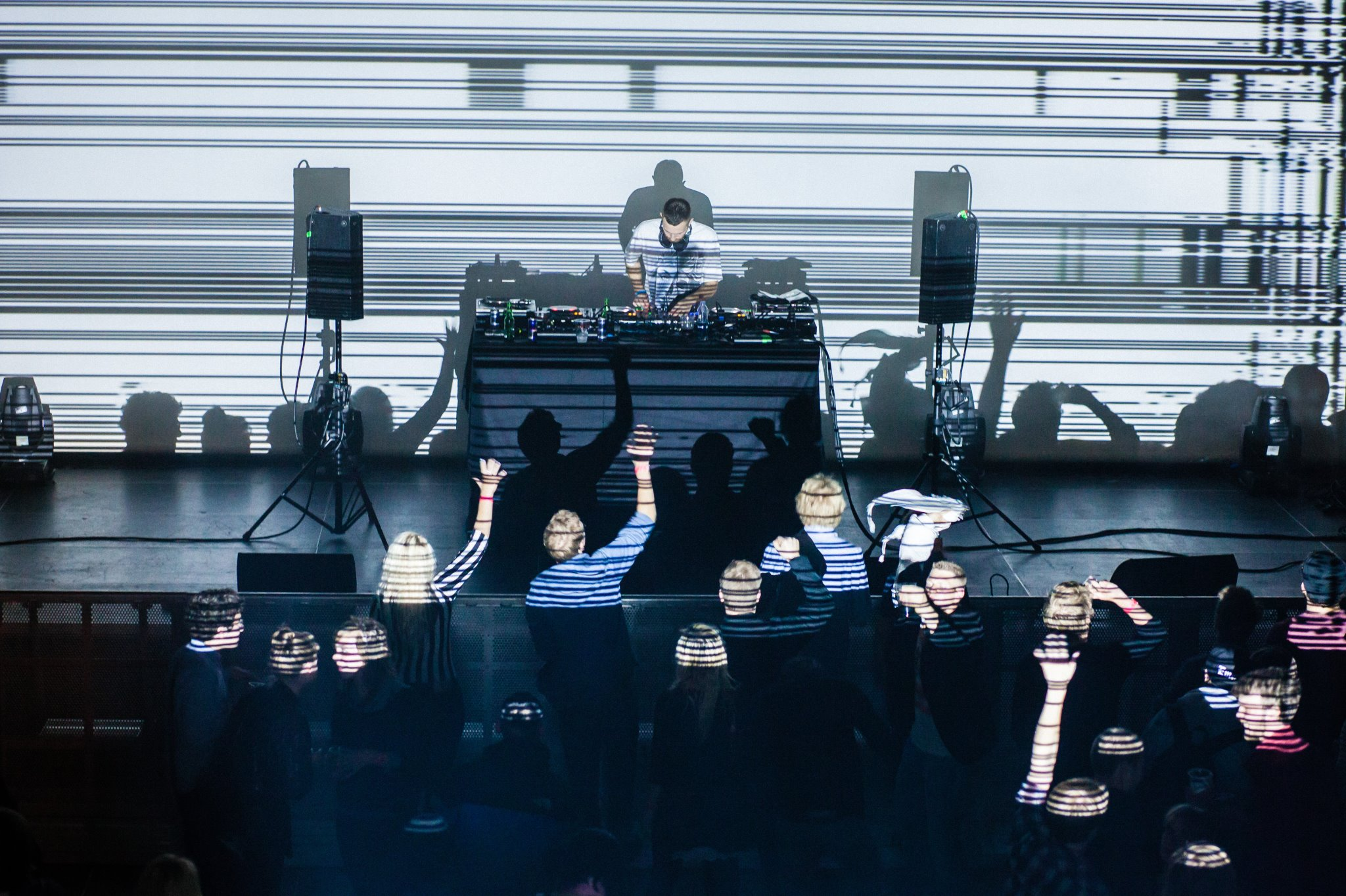 Helsingør / Elsinore Kulturværftet / The Culture yard . Event during the 2012 Click Festival